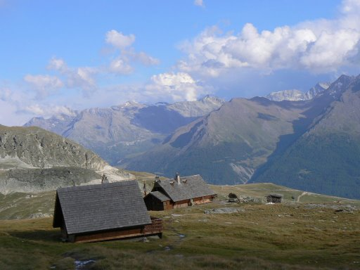 Refuge de l'Arpont (France's refuge in Alpes in National Park of Vanoise)